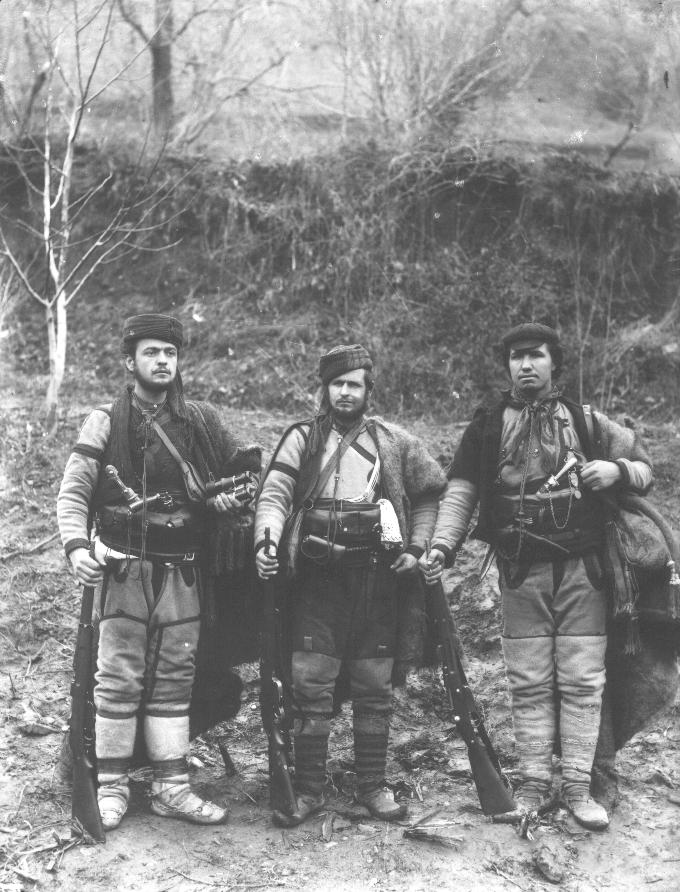 portrait of Andrey Dimkov Dokurchev, Andon Kyoseto and Marko Hristov